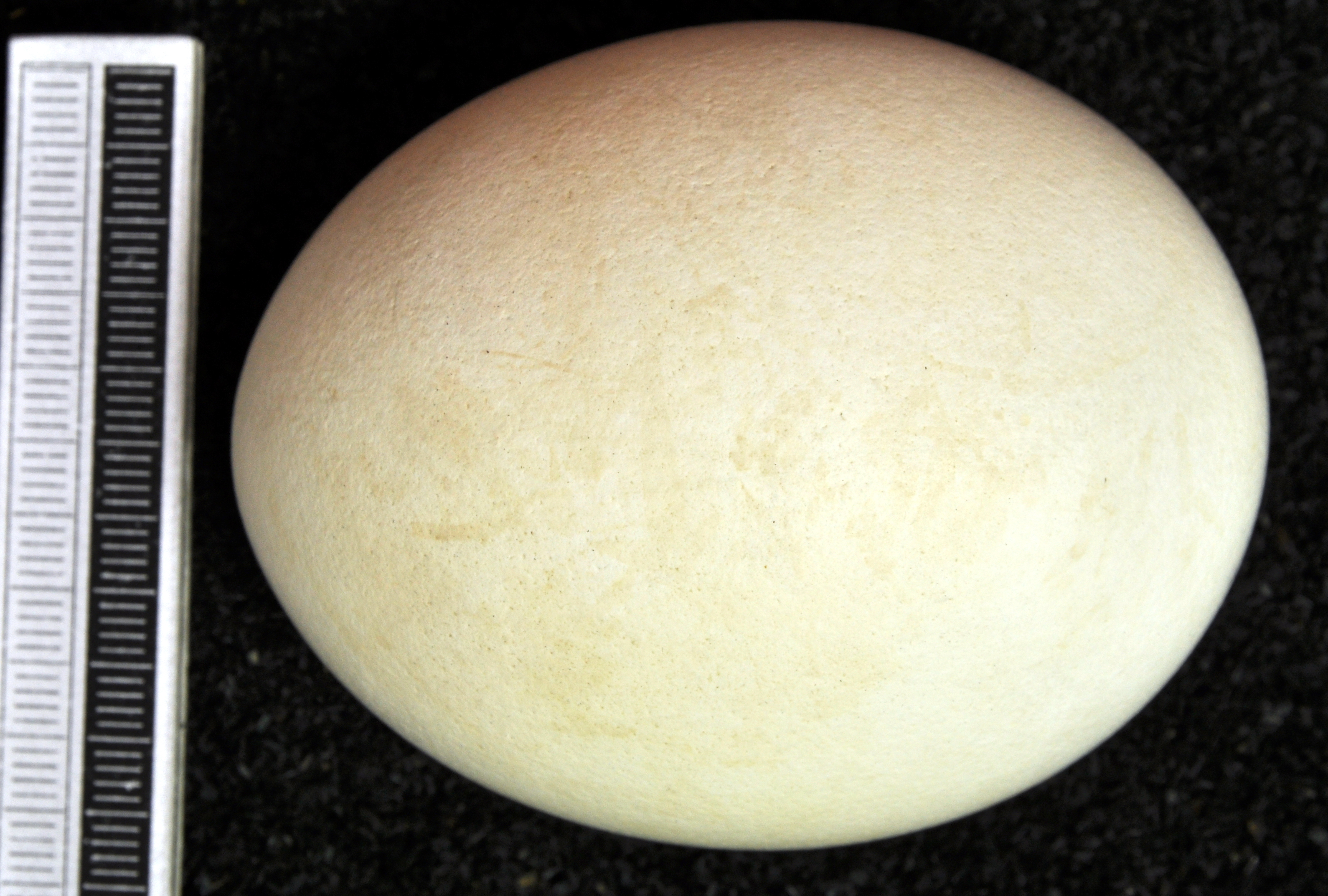 Short-toed snake eagle Circaetus gallicus , egg, Coll. Museum Wiesbaden